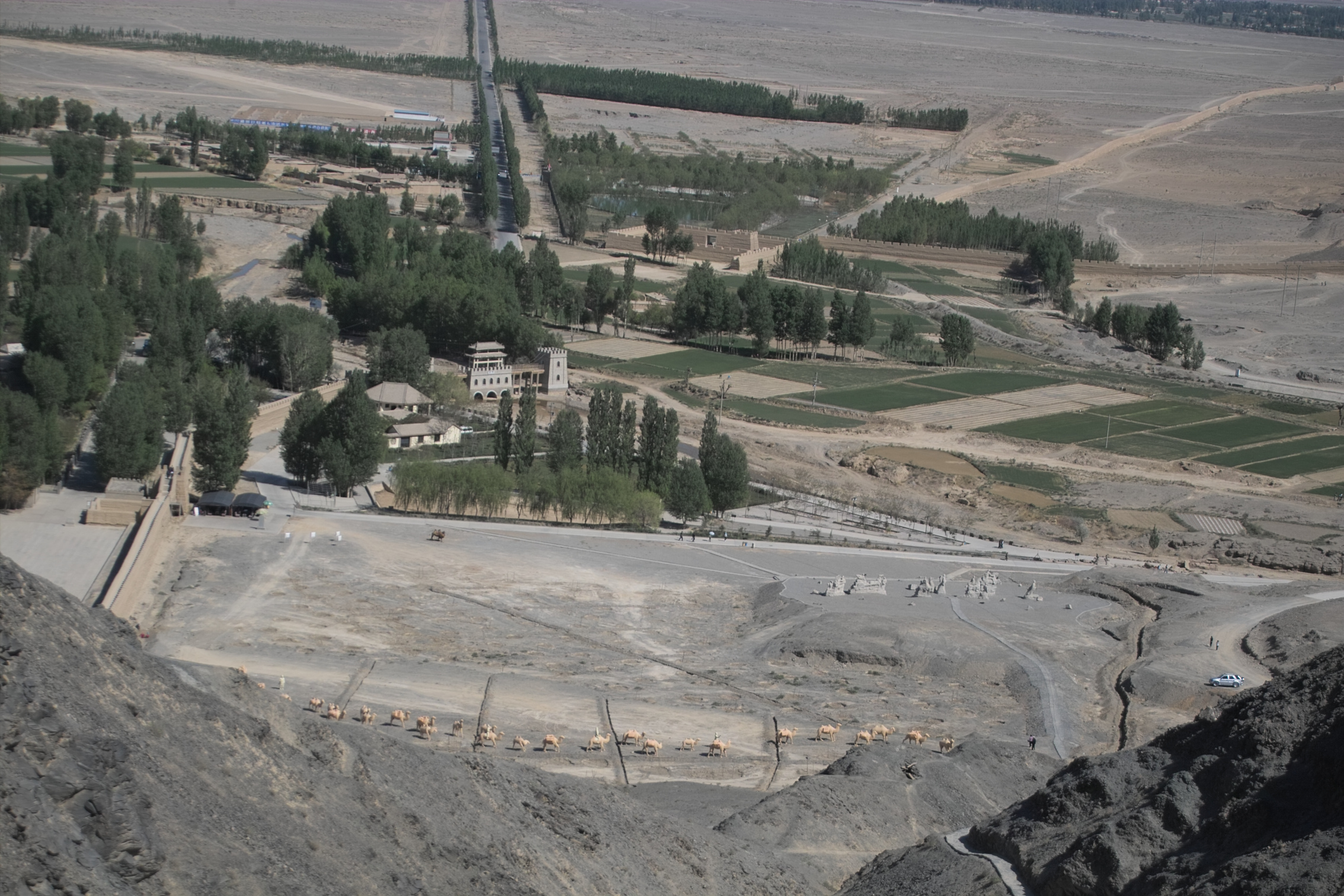 Near Jiayuguan Fort there is a part of the Great Wall restored. The picture is taken from the tower of Great Wall down direction Jiayuguan town.